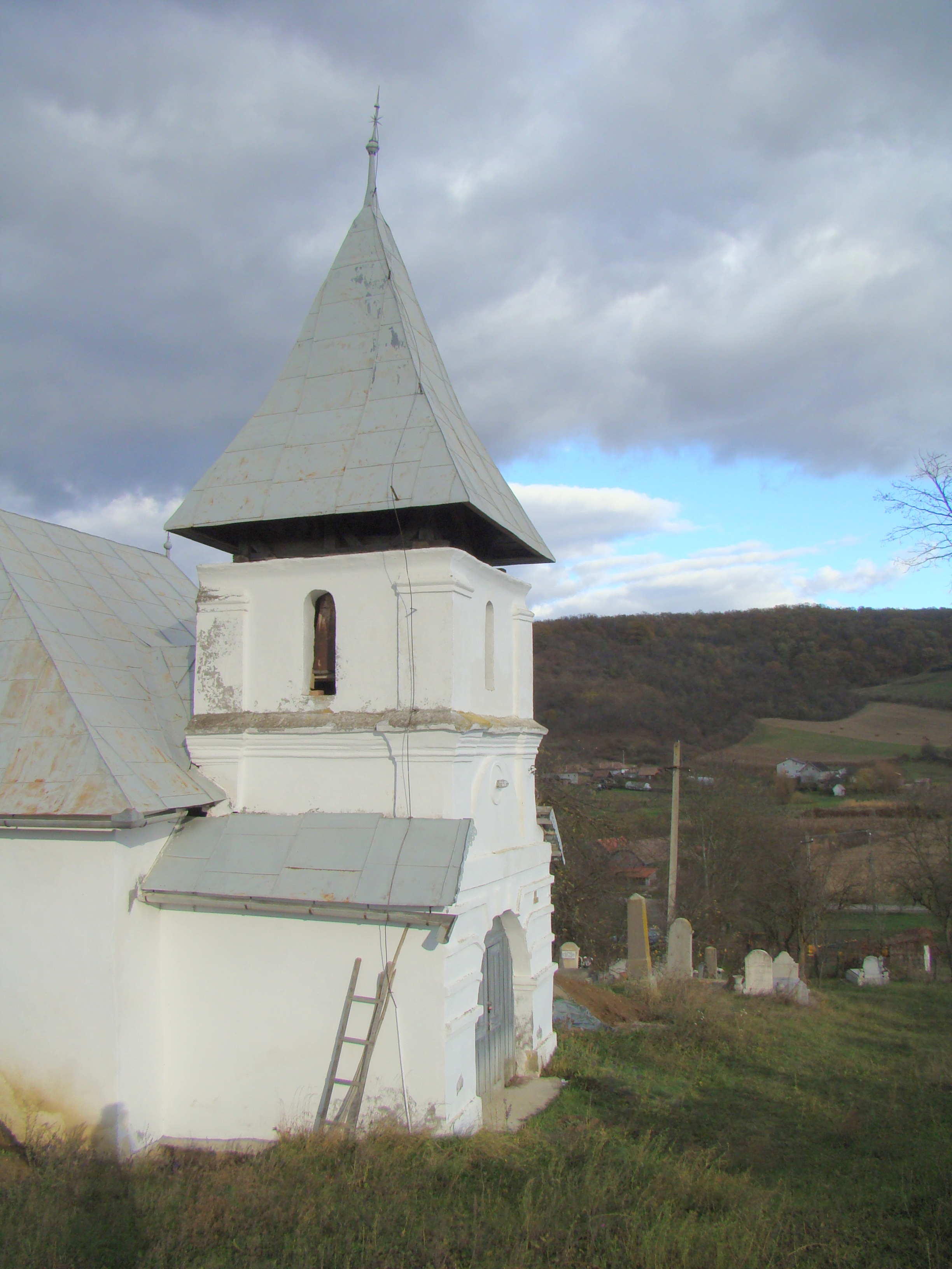 Belltower of the reformed church in Hărțău, Mureș county, Romania